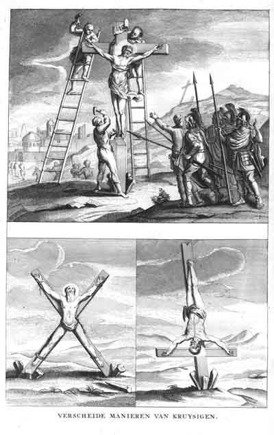 Varieties of Crucifixion Dutch copper engraving 17th century